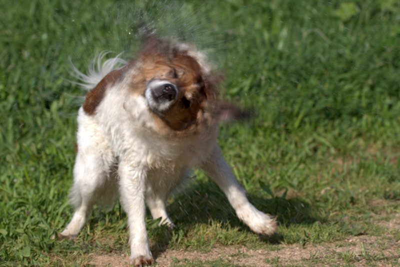 A dog shaking off water. This is an example of instinctive behavior.